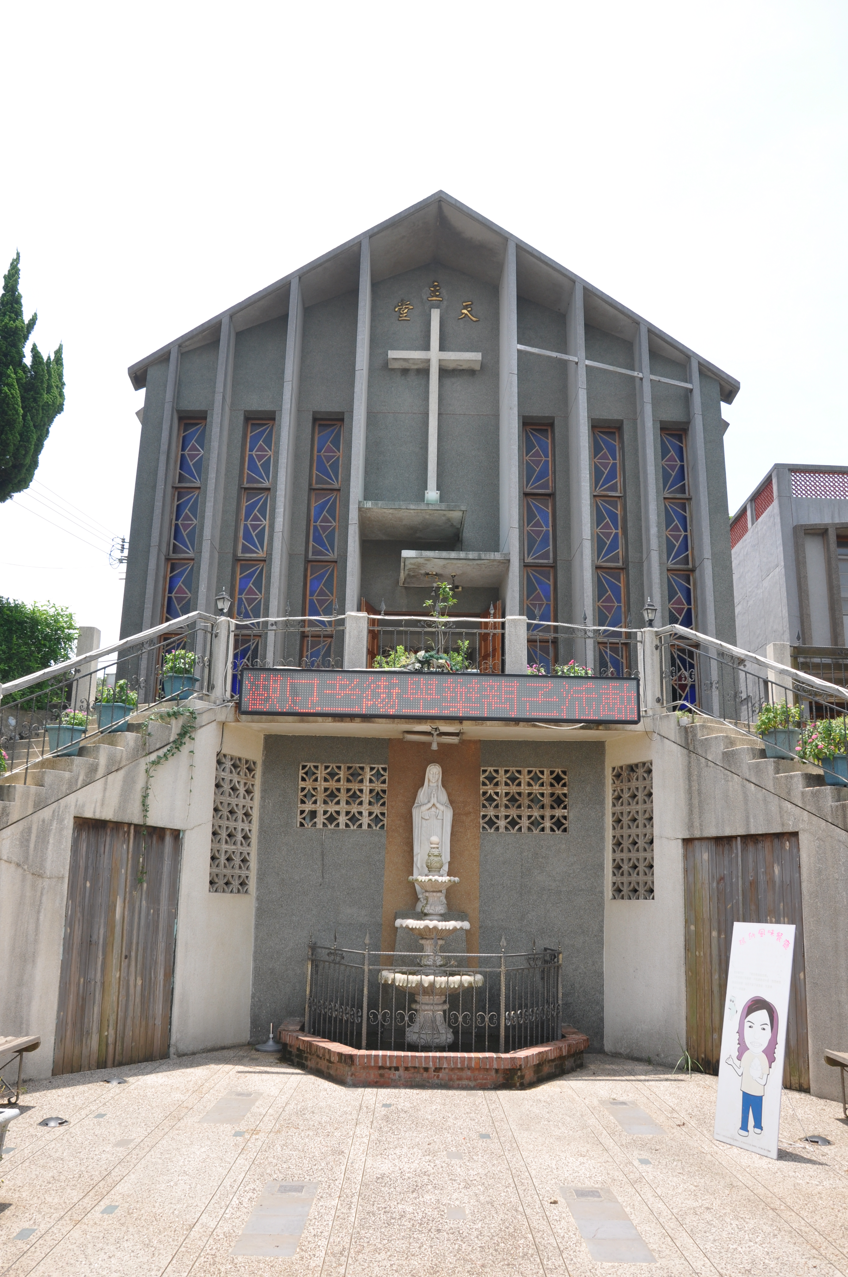 Exterior of the old Catholic Church, Hukou, Hsinchu County, Taiwan, China